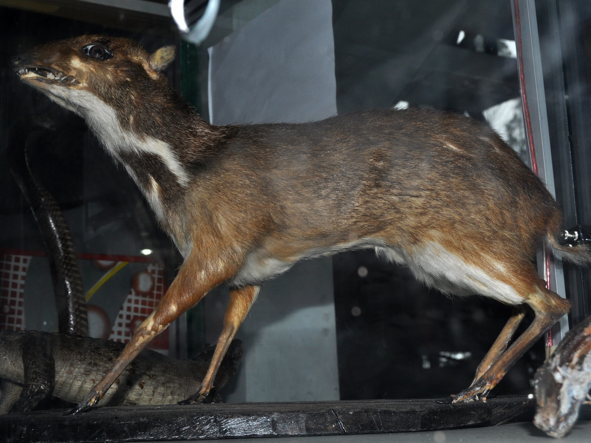 Tragulus javanicus, stuffed animal; collection of Gunung Gede Pangrango Nat. Park of West Java, Indonesia